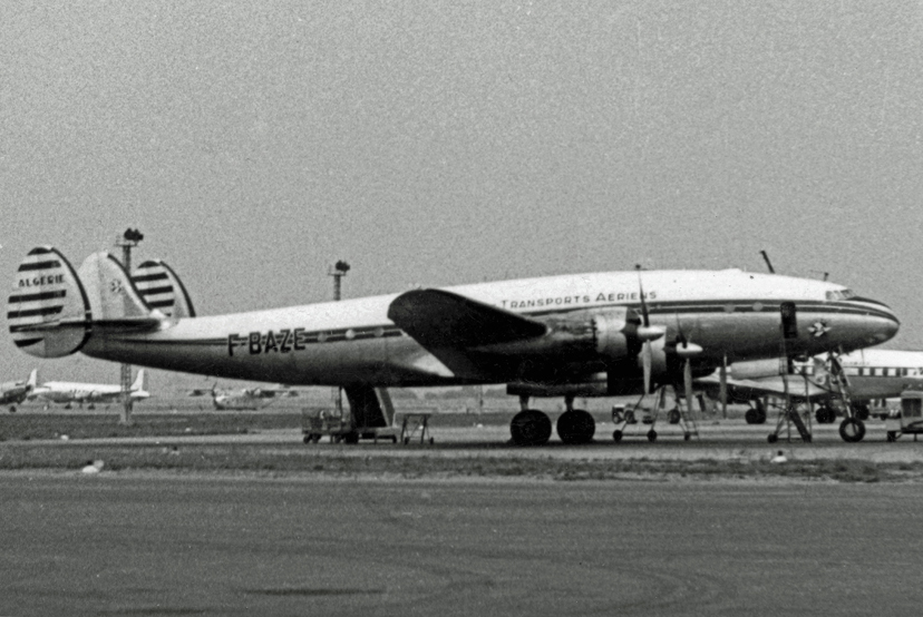 Lockheed L749A Constellation F-BAZE of Air Algerie at Paris Orly Airport in 1957